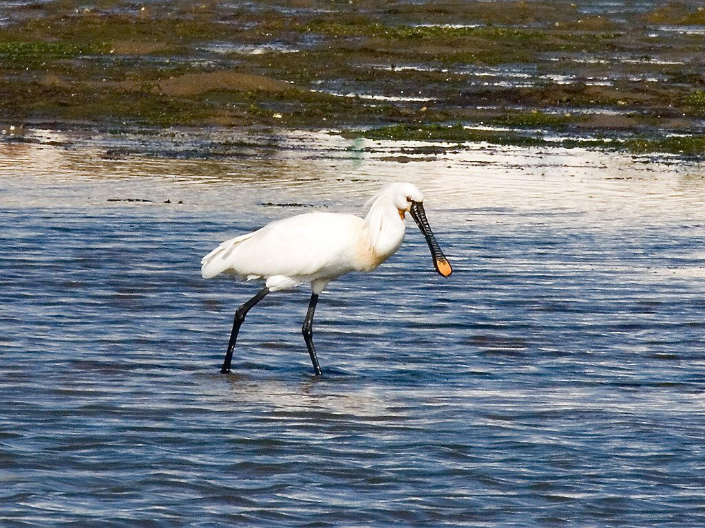 Spoonbill Platalea leucorodia